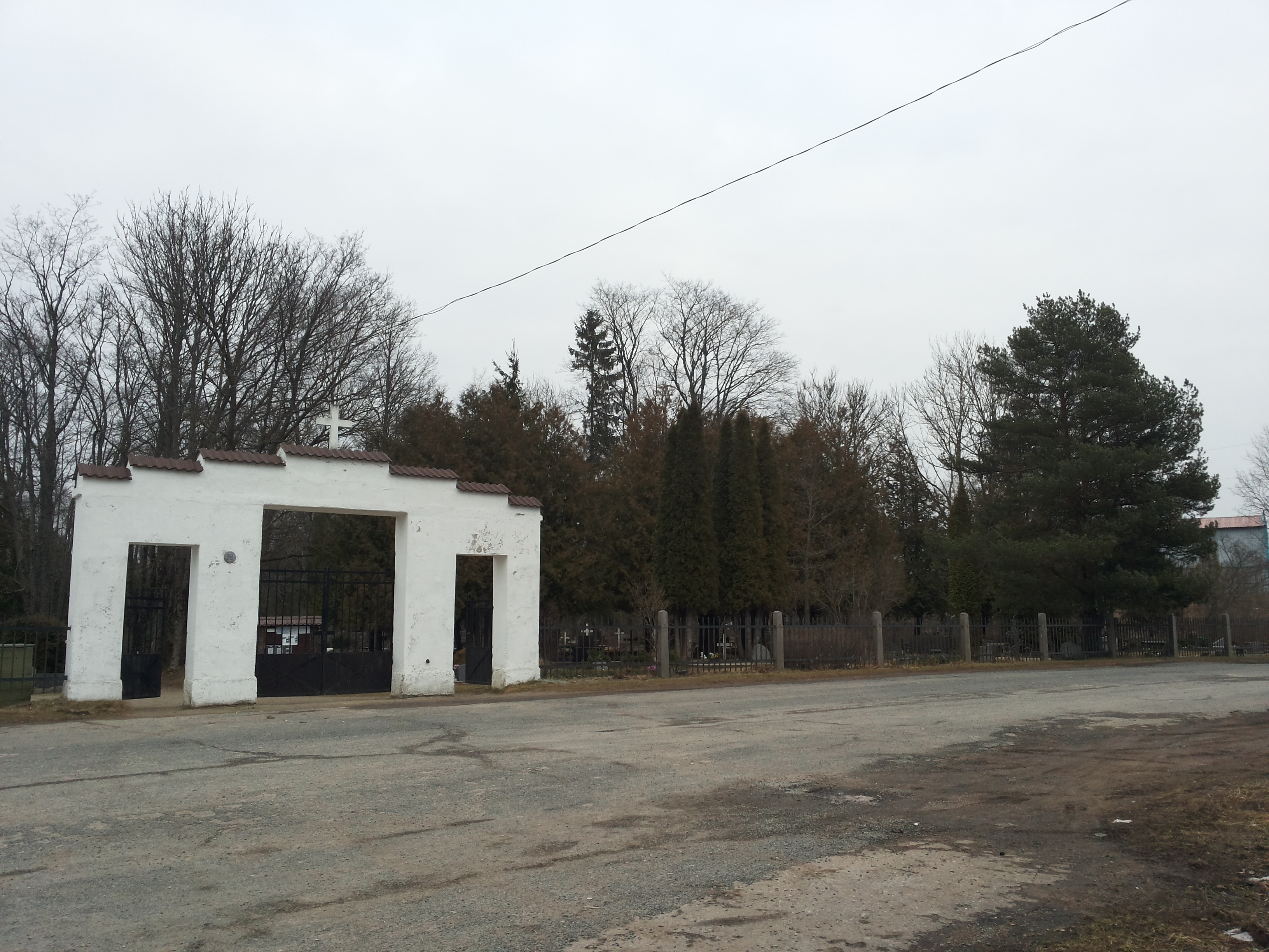 Tapa City Cemetery